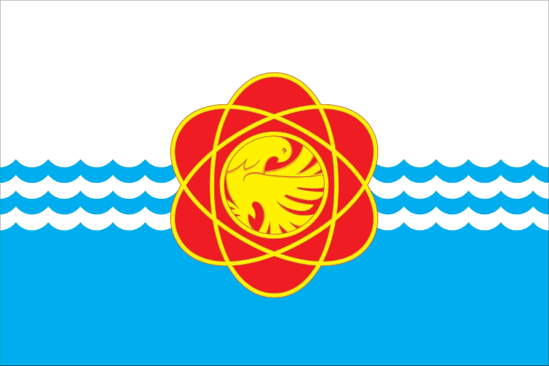 Flag of Desnogorsk, Smolensk Region, Russia